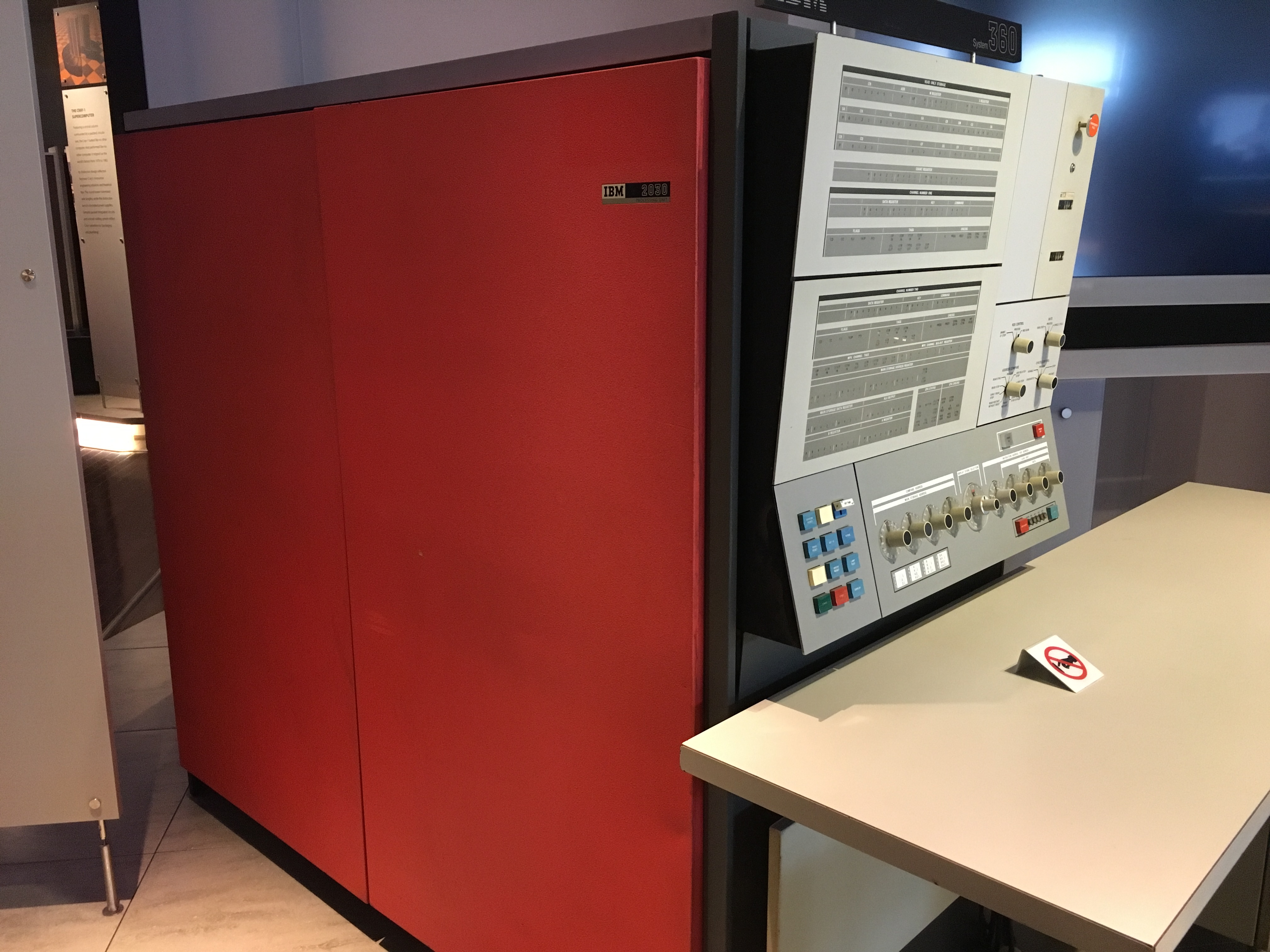 IBM System 360/30 at the Computer History Museum.